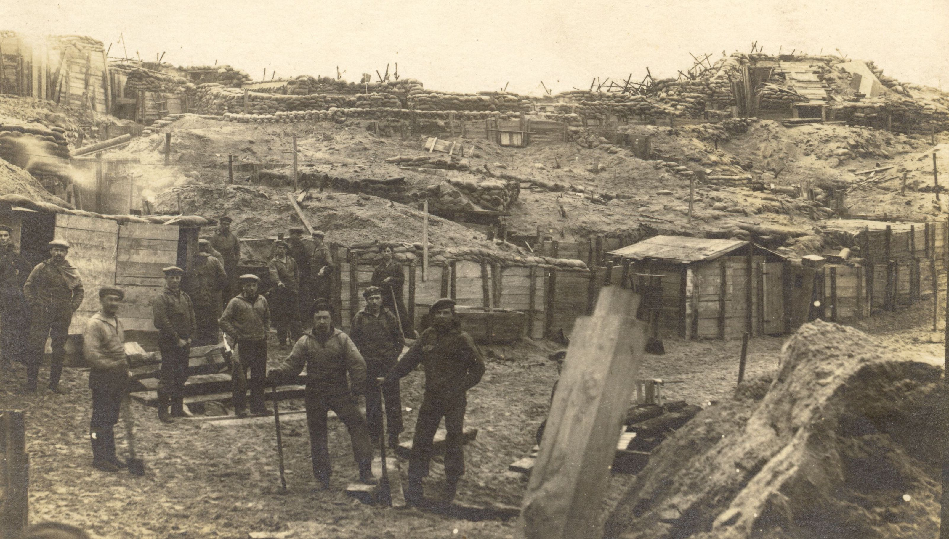 De Hexenkessel.